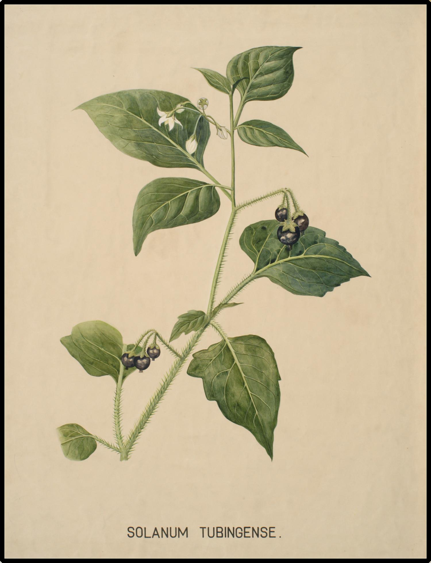 Solanum tubingense with flowers and fruit.